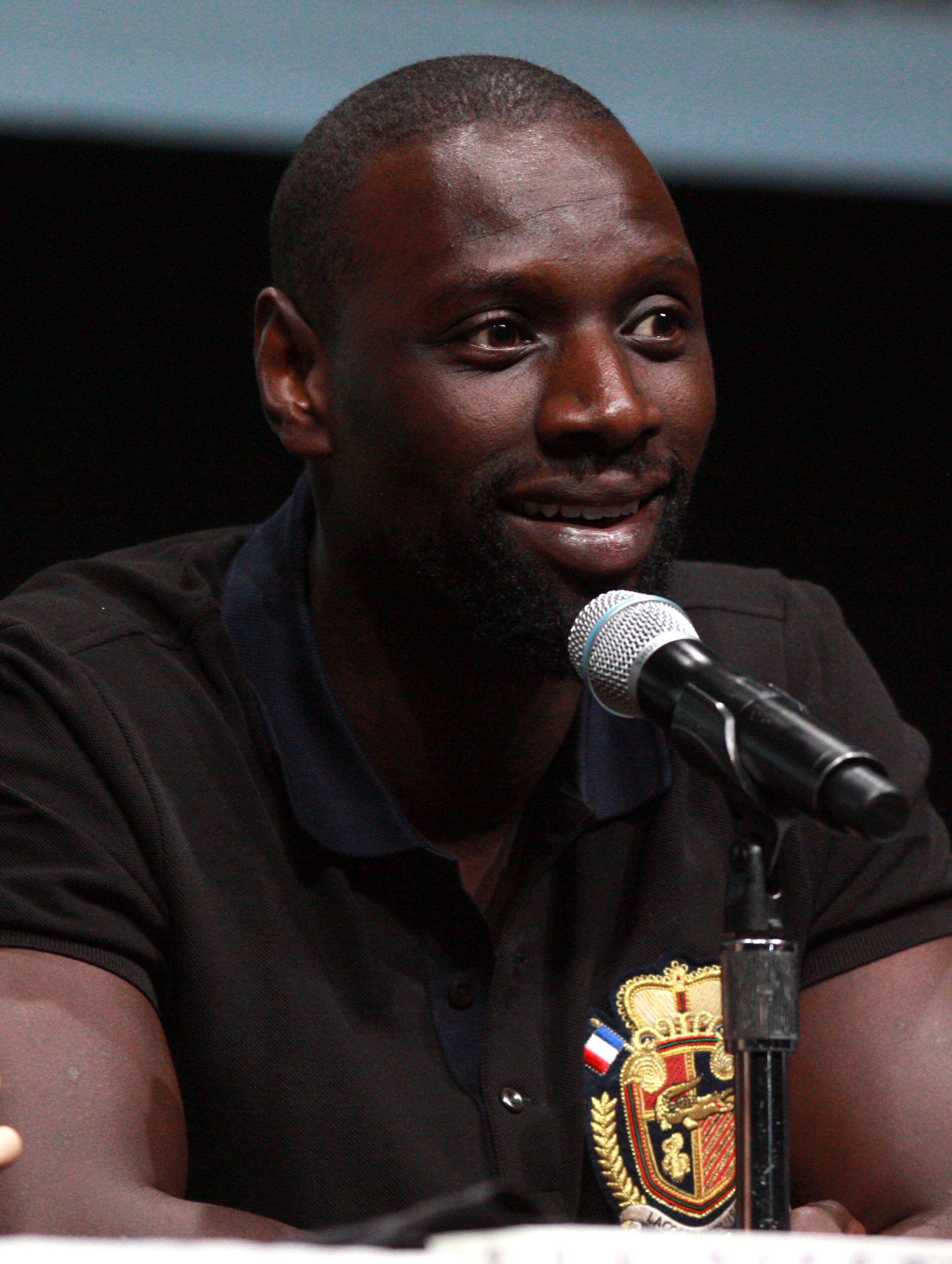 Omar Sy at the 2013 San Diego Comic Con International